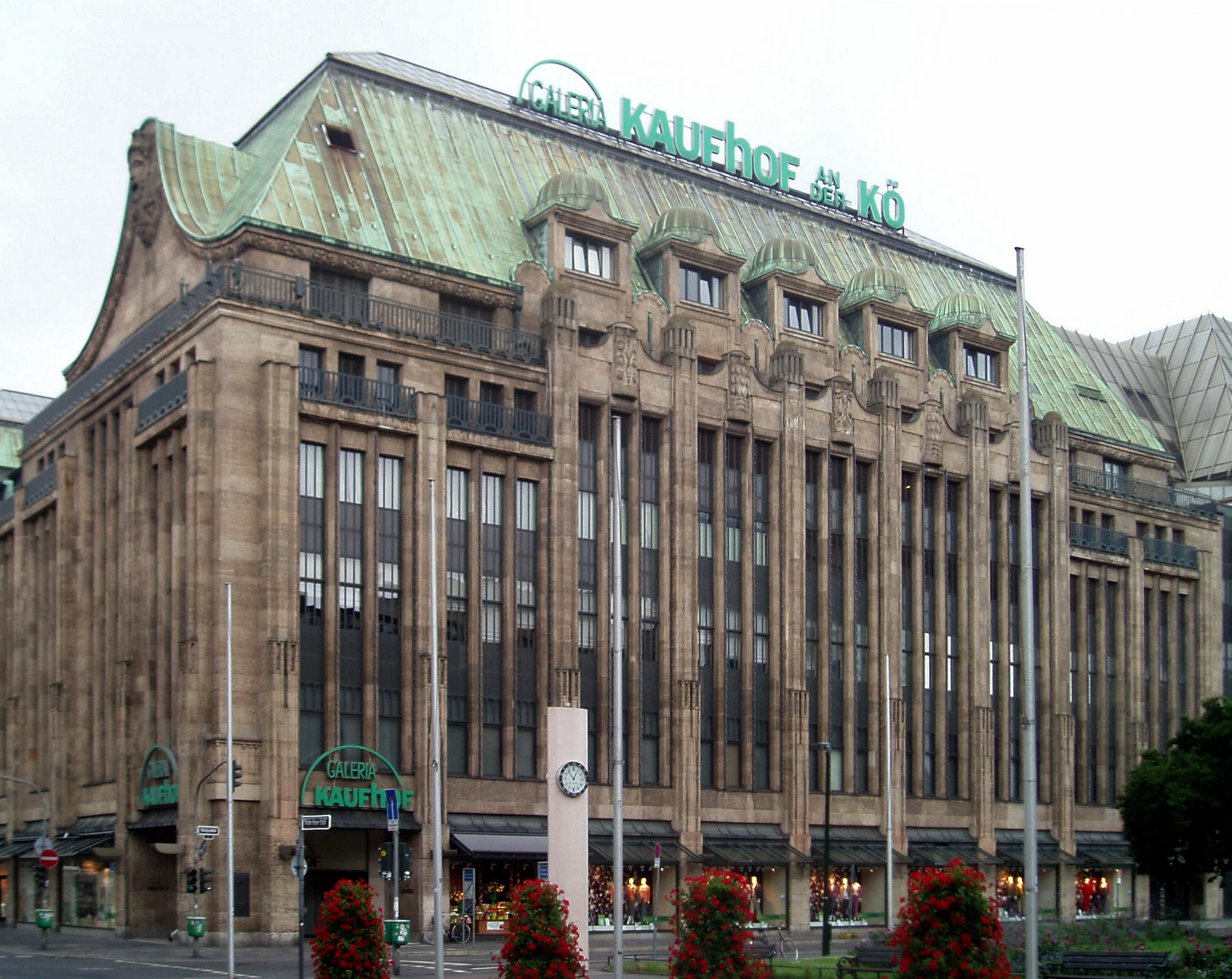 The Königsallee (Jugendstil Kaufhof) in Düsseldorf.